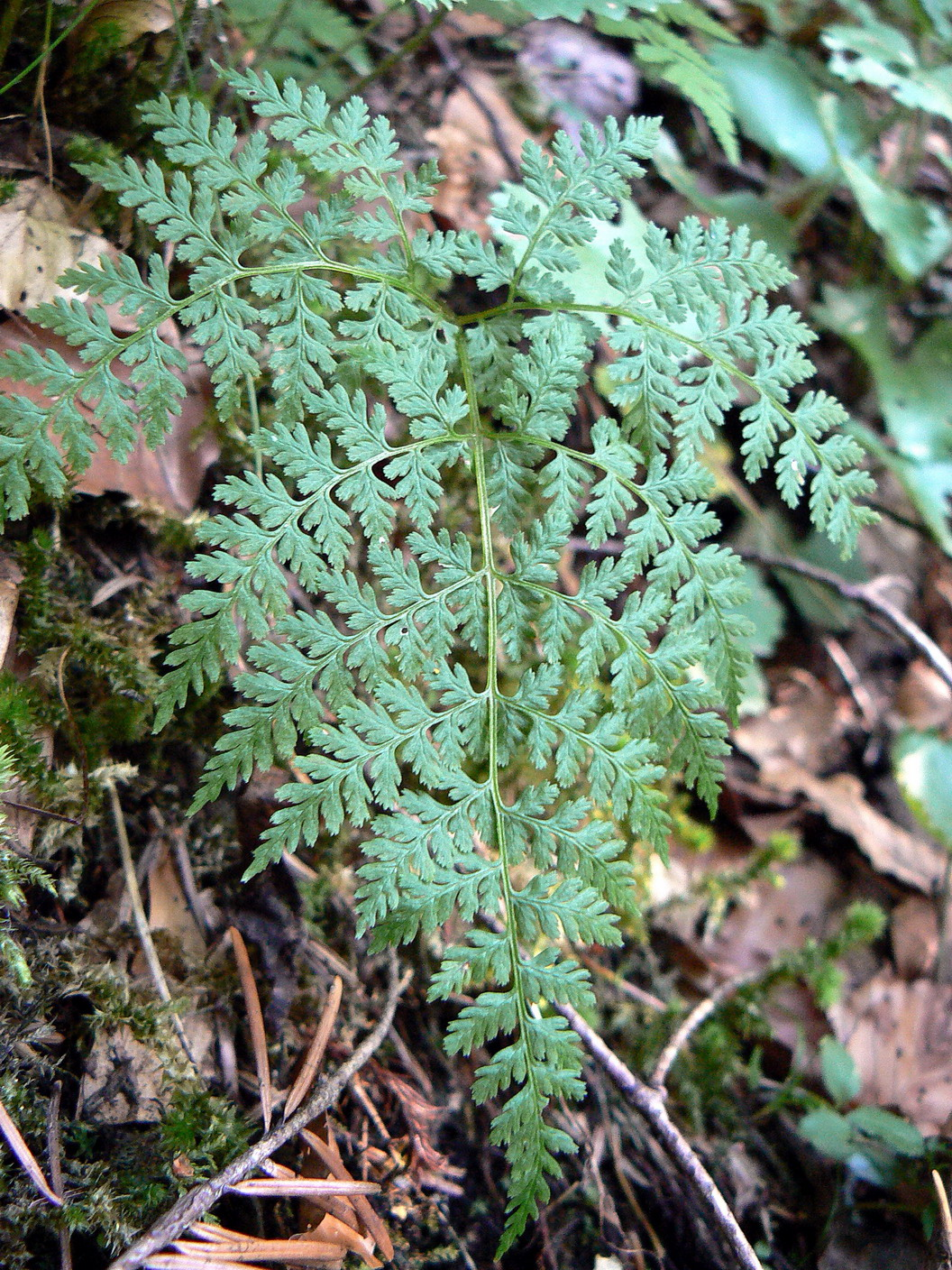 Cystopteris montana, Devoluy , France